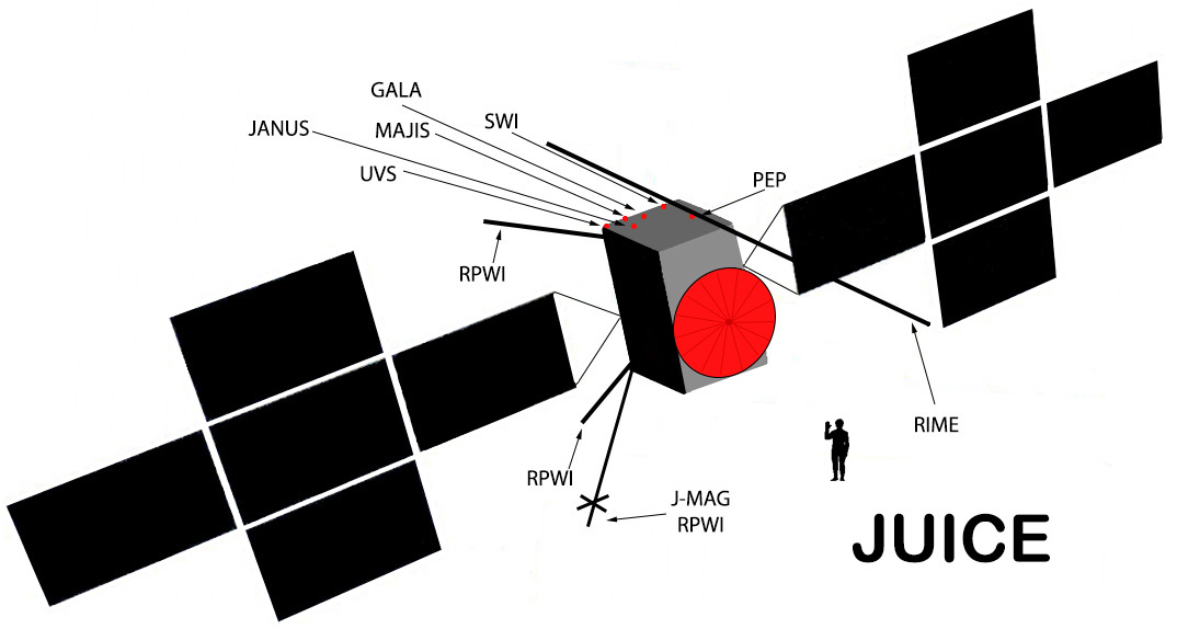 This is a scheme of the european spacecraft JUICE (JUpiter ICy moons Explorer). The antenna is covered with a cloth to protect itself from radiation